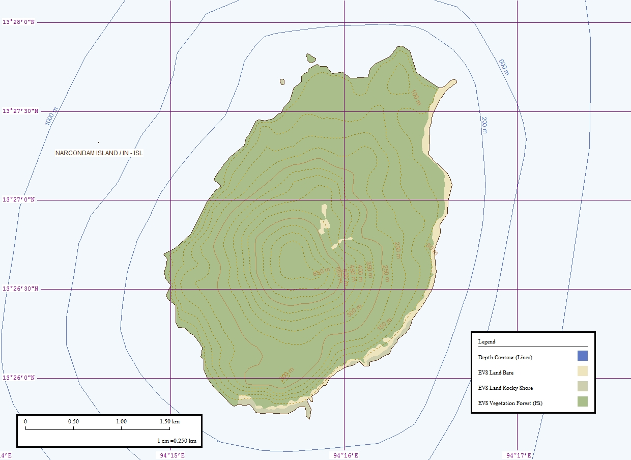 Topographic map of Narcondam Island, Andaman and Nicobar Islands, India